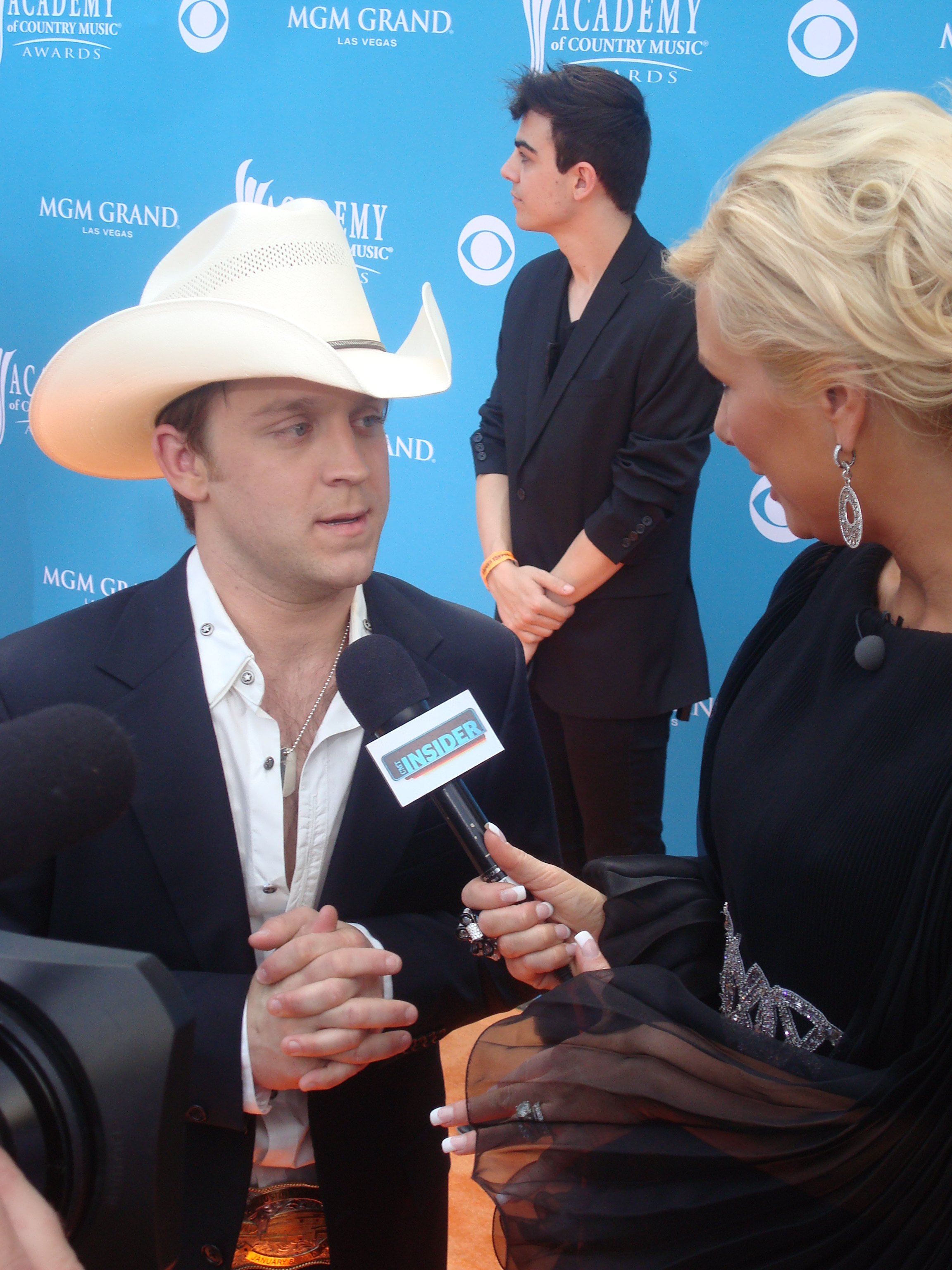 Justin Moore at the 2010 Academy of Country Music Awards, being interviewed by Allison DeMarcus